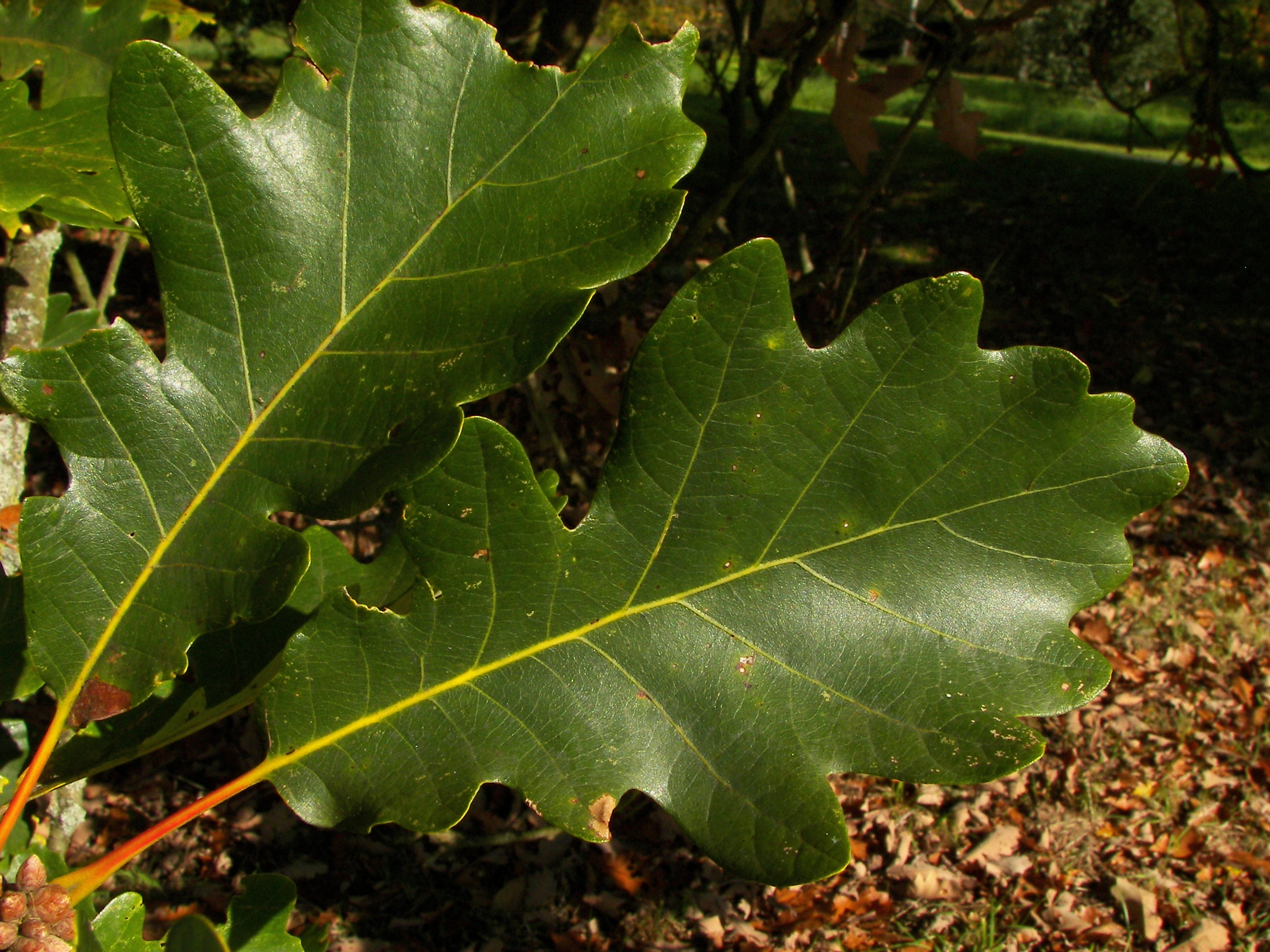 Swamp White Oak (Quercus bicolor) in the New Botanical Garden Marburg, Hesse, Germany